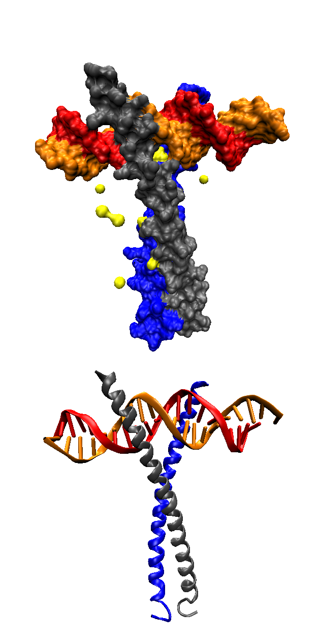 Leucine zipper type transcription factor in complex with DNA. Created from MMDB entry 48655 using visualization package VMD.